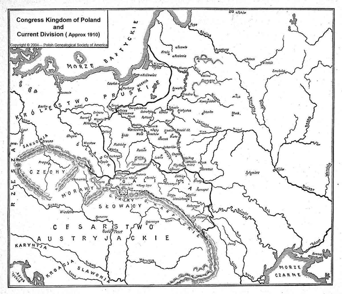 The Historical Atlas of Poland was compiled by Jozef Nowina Sroczynski (Gimnazjum teacher); the initials C.K. indicate he taught at a school in the Austrian Empire, presumably in Galicia]. The atlas was published by W. Dyniewicz, Chicago, IL - approximately 1910.